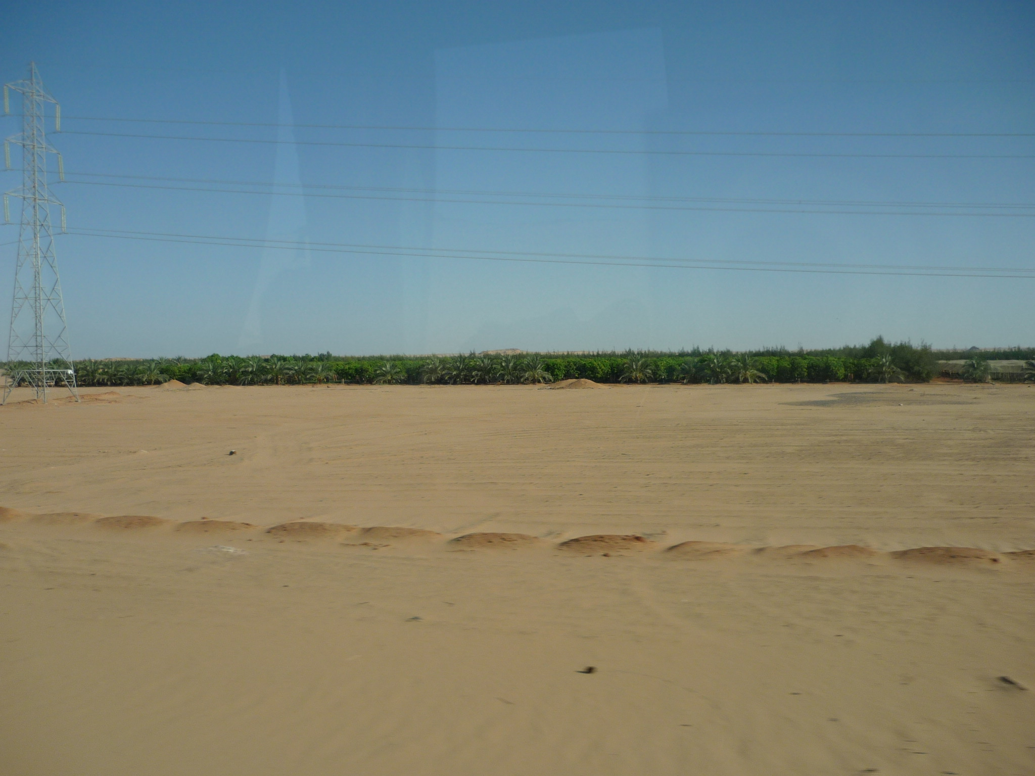 Agriculture of New Valley project, Libyan desert, Egypt